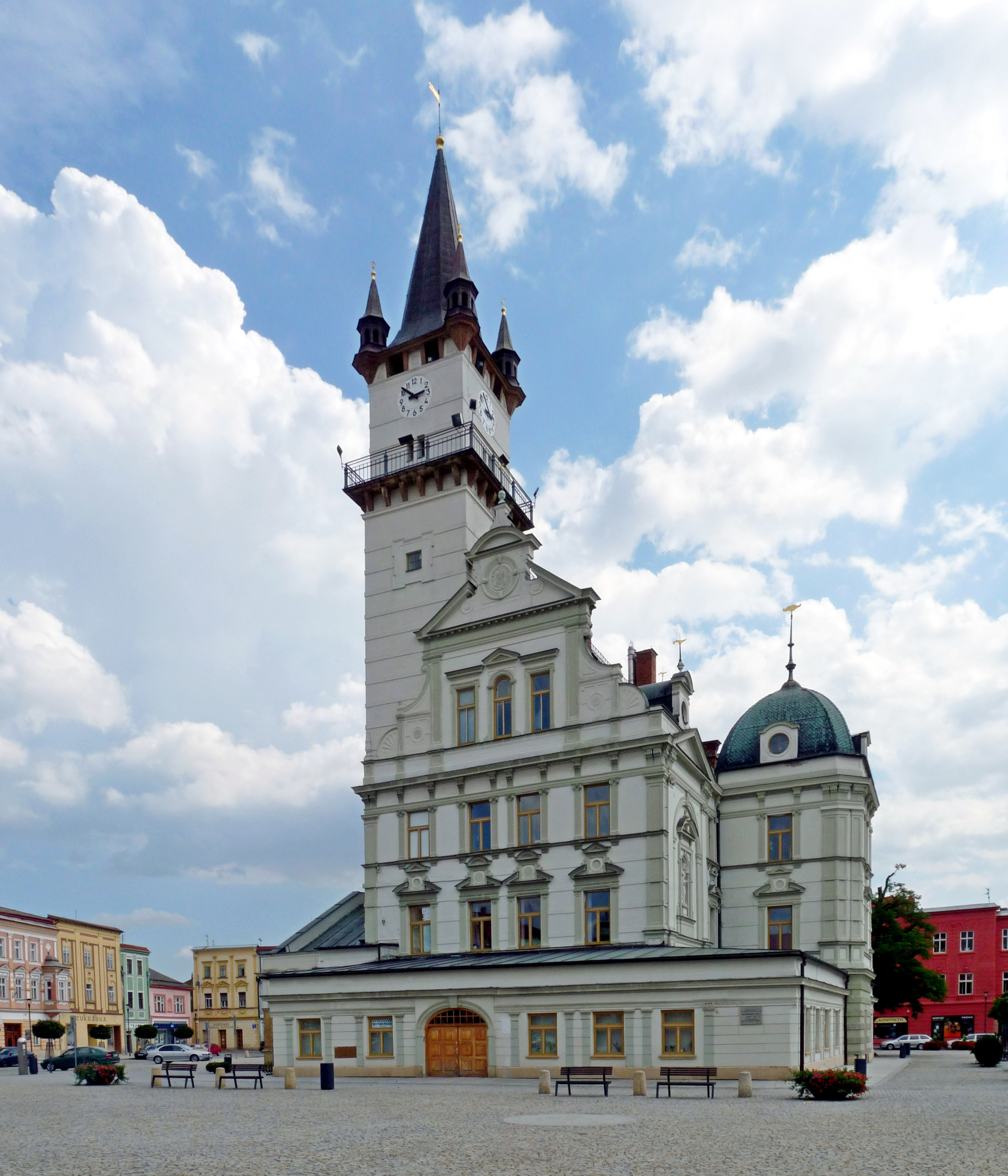 Town hall in the village of Uničov, Olomouc District, Moravian-Silesian Region, Czech Republic.